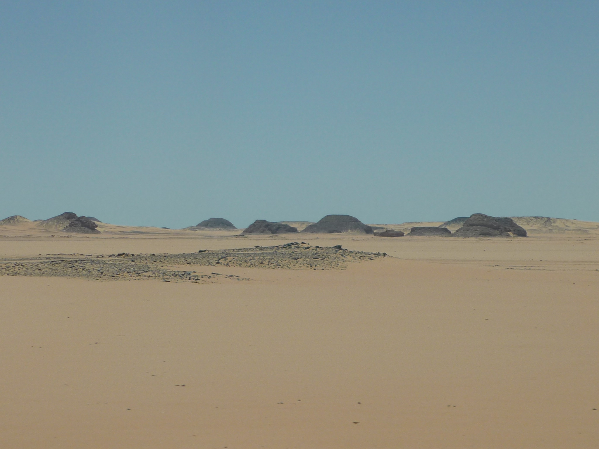 Libyan desert landscape near Abu Simbel, Egypt